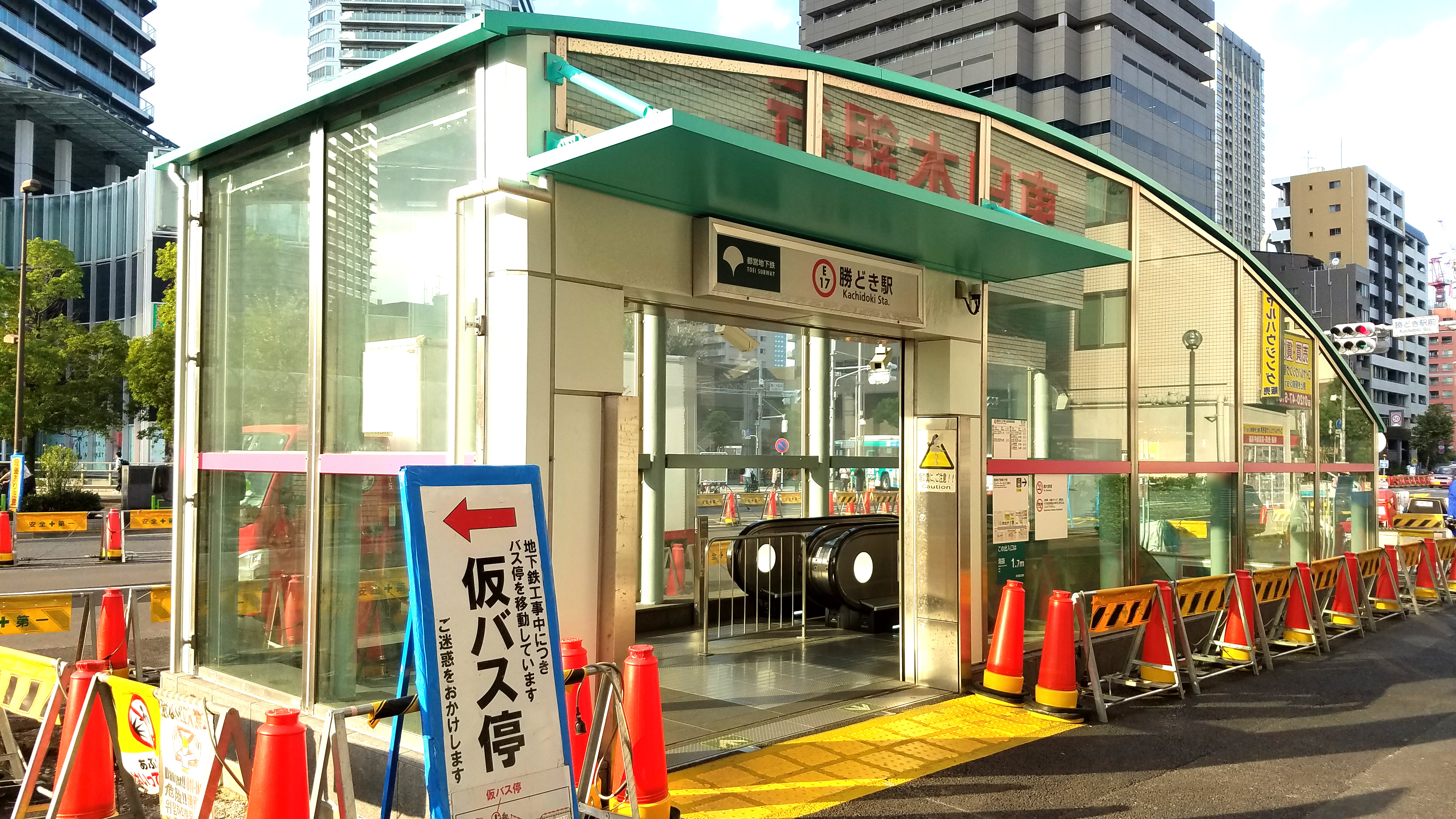 The entrance A3b to Kachidoki Station on the Toei Ōedo Line in Chūō city, Tokyo, Japan